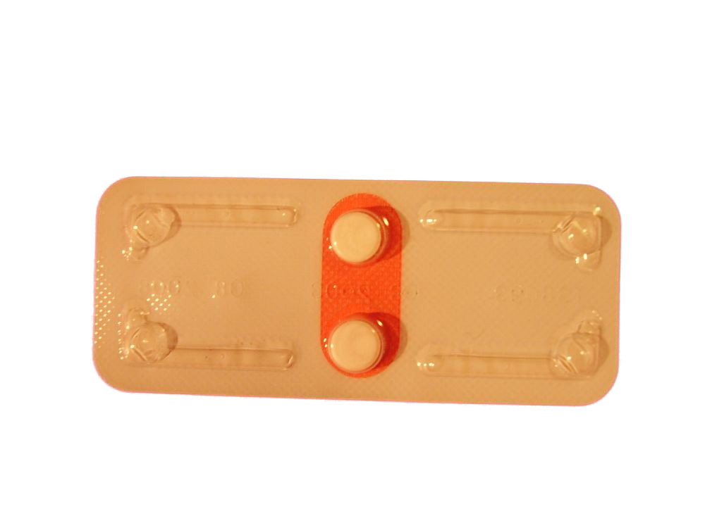 Emergency contraceptive pills